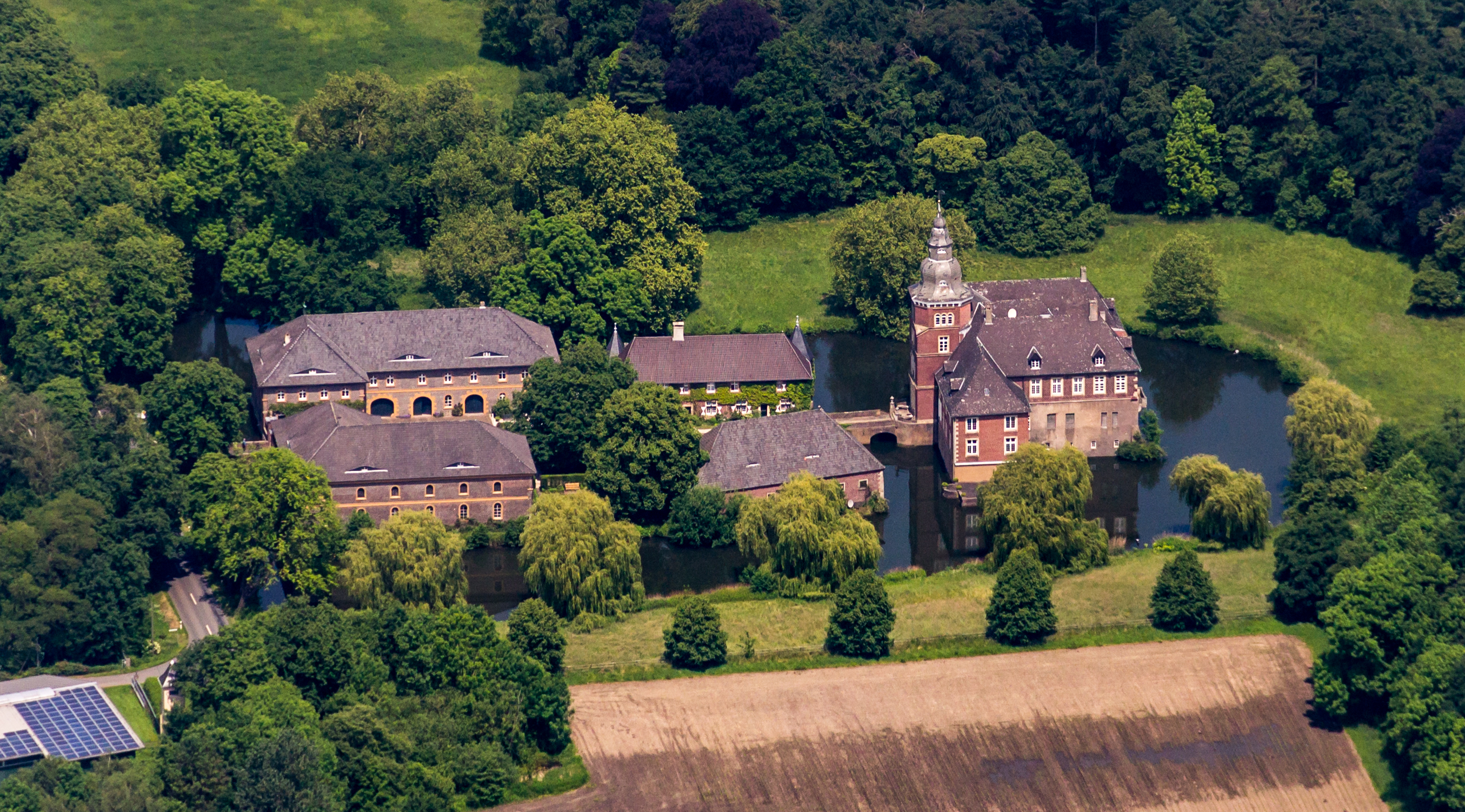 Sandfort Castle, Olfen, North Rhine-Westphalia, Germany This image shows a heritage building in Germany, located in the North Rhine-Westphalian city Olfen (no. 6).